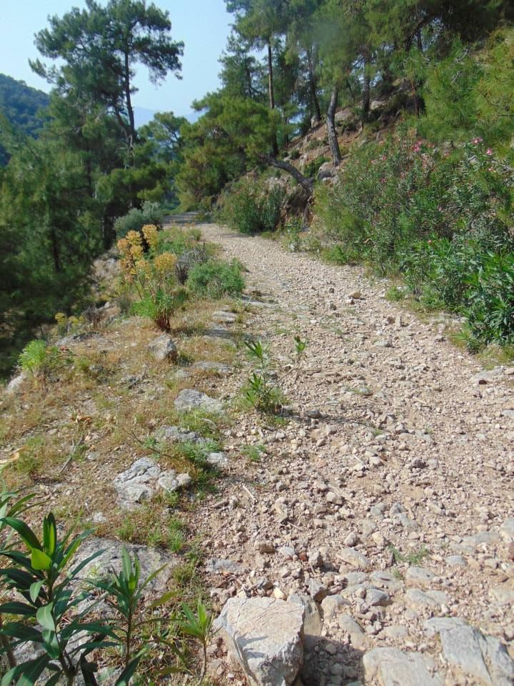 Lician Way